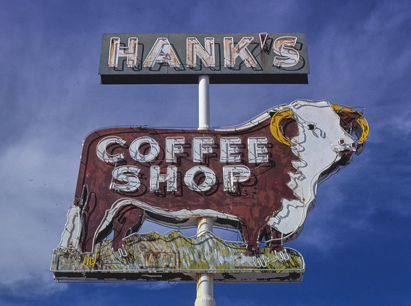 Margolies, John,, photographer. Hanks Coffee Shop sign, 4th Street, Benson, Arizona 1979. 1 photograph : color transparency ; 35 mm (slide format). Notes: Title, date and keywords based on information provided by the photographer. Margolies categories: Eating and drinking establishment signs. Please use digital image: original slide is kept in cold storage for preservation. Credit line: John Margolies Roadside America photograph archive (1972-2008), Library of Congress, Prints and Photographs Division. Purchase; John Margolies 2008 (DLC/PP-2008:109-3). Forms part of: John Margolies Roadside America photograph archive (1972-2008). Subjects: Coffeehouses--1970-1980. Signs (Notices)--1970-1980. United States--Arizona--Benson. Format: Slides--1970-1980.--Color For more information, see "John Margolies Roadside America Photograph Archive - Rights and Restrictions Information" Repository: Library of Congress, Prints and Photographs Division, Washington, D.C. 20540 USA, Part Of: Margolies, John John Margolies Roadside America photograph archive (DLC) 2010650110 General information about the John Margolies Roadside America photograph archive is available at Higher resolution image is available (Persistent URL): Call Number: LC-MA05- 1513